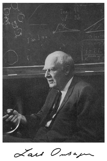 Lars Onsager